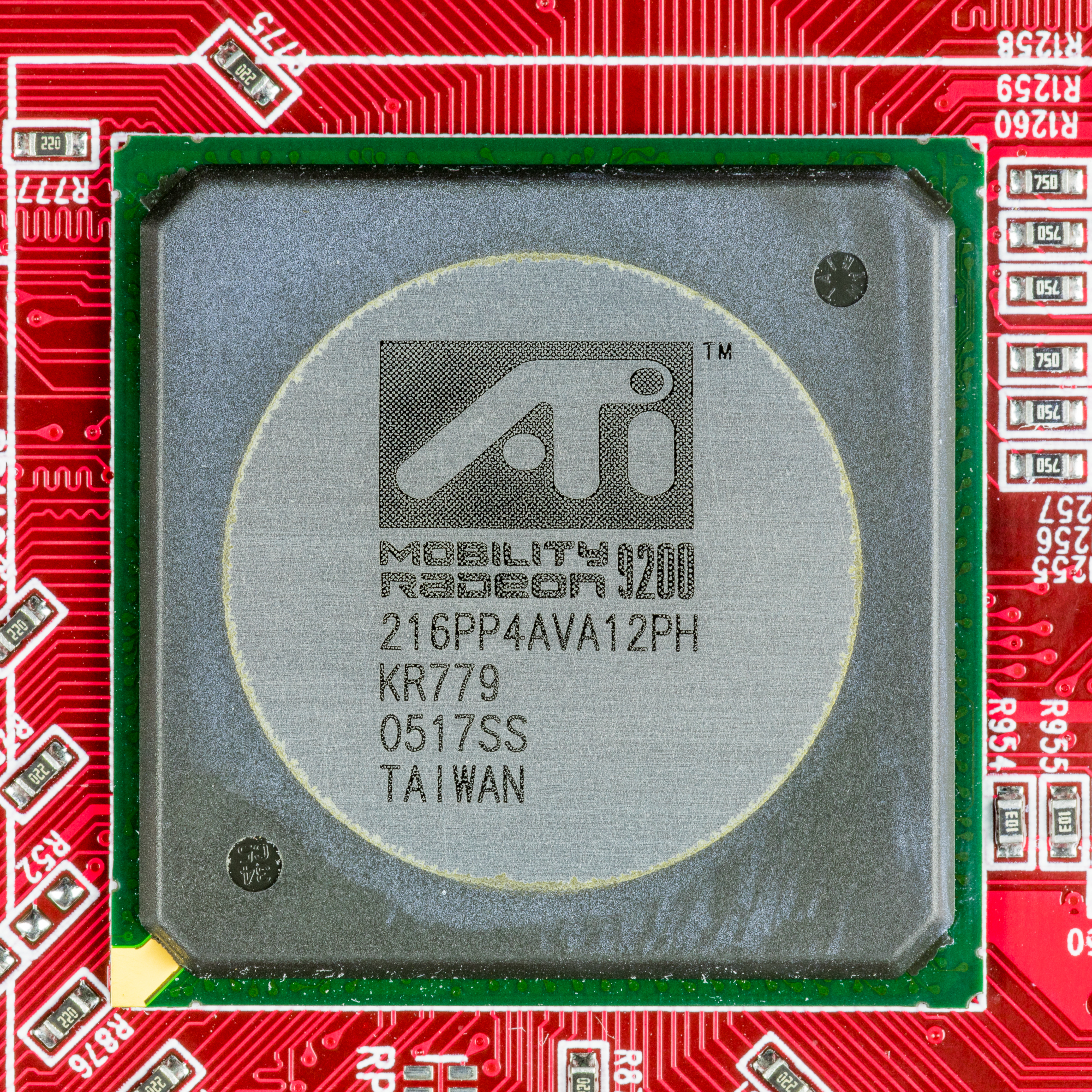 ATI Radeon R9250 128MB 64Bit - ATI Mobility Radeon 9200 216PP4AVA12PH